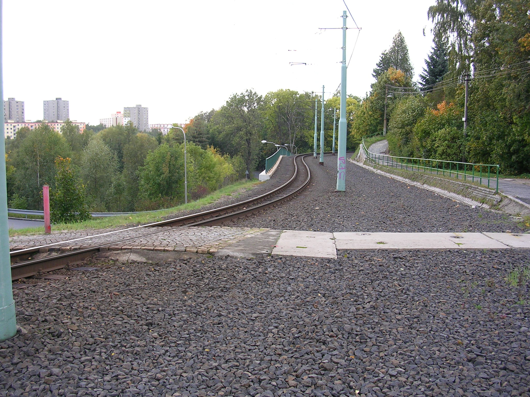 Tramway line between Liberec and Jablonec. Liberec, between tram stops Nová Ruda and U Lomu.